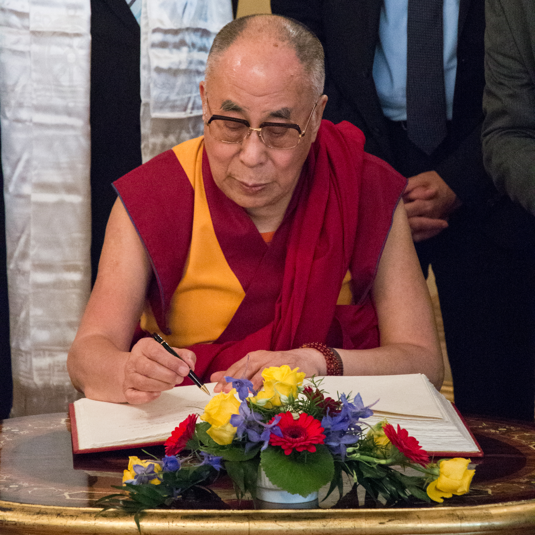 Tenzin Gyatso the 14th Dalai Lama during his visit in Wiesbaden in July 2015